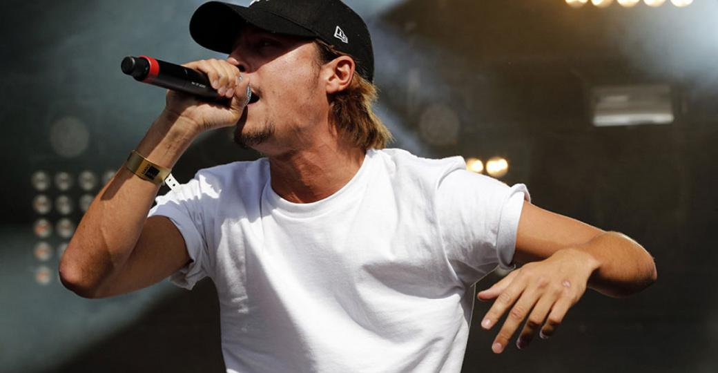 Nekfeu on stage at the Poupet Festival